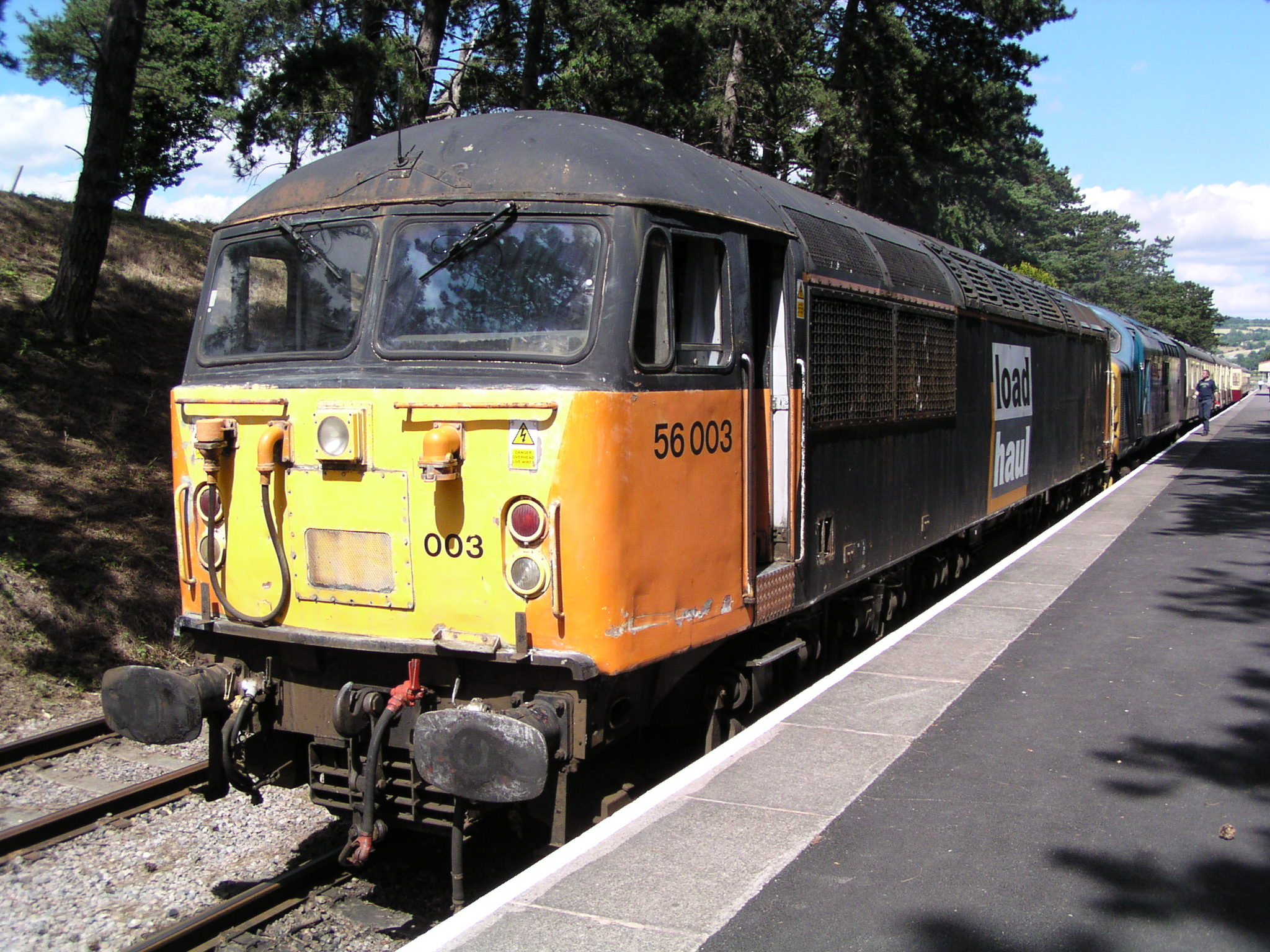 British Rail Class 56, no. 56003, at Cheltenham Racecourse on 15th July 2005. This locomotive is one of several that have been preserved. It is seen whilst on loan to the Gloucestershire Warwickshire Railway. It carries Load-Haul livery. A class 37 locomotive is marshalled behind 56003 to act as brake translator. Image by Phil Scott (Our Phellap)